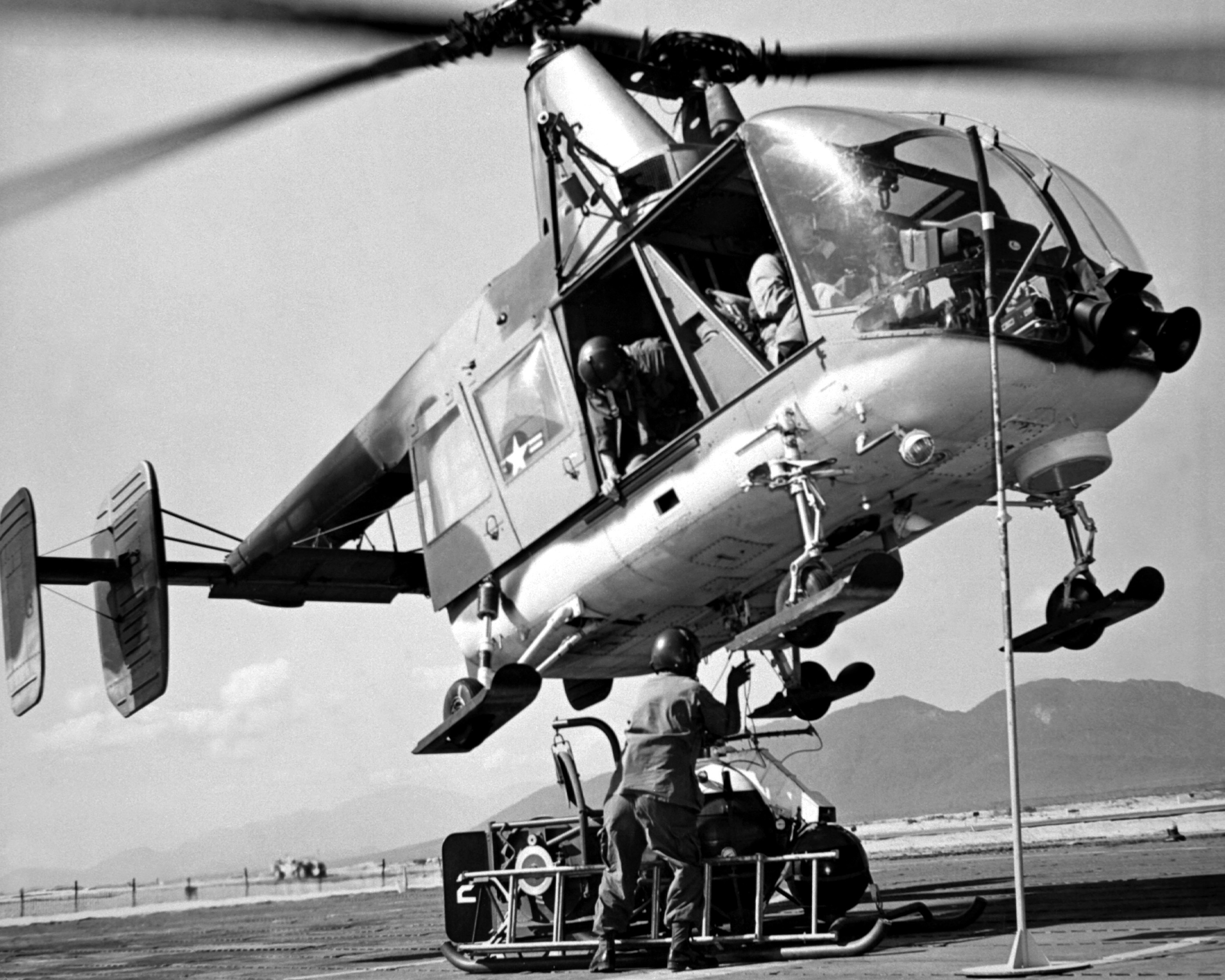 A U.S. Air Force fire protection specialist hooks fire fighting equipment on a Kaman HH-43B Huskie helicopter. The crew was assigned to Detachment 8, 38th Aerospace Rescue and Recovery Squadron, Cam Ranh Bay Air Base, Vietnam.